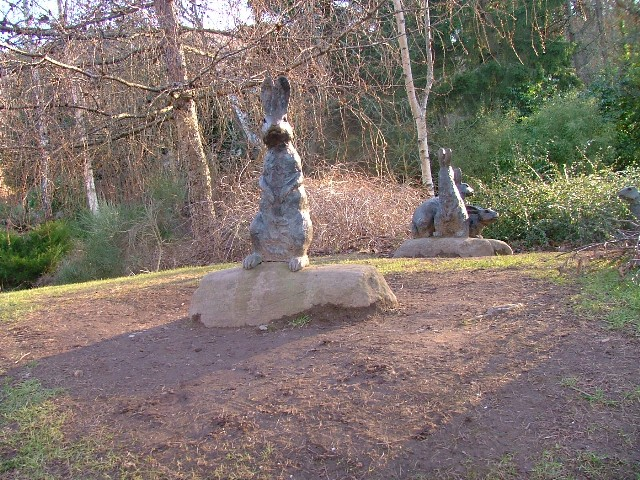 Peter Rabbit in the Beatrix Potter Garden Birnam. Peter Rabbit